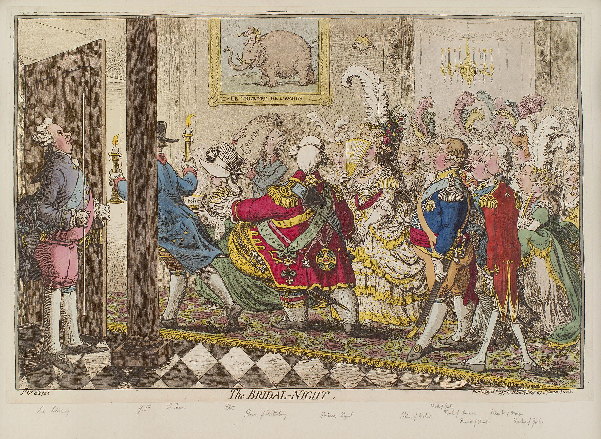 The bridal night, by James Gillray (died 1815), published 1797. All images in this batch have been confirmed as author died before 1939 according to the official death date listed by the NPG.